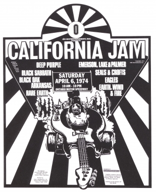 cal jam I promotion ad 1974